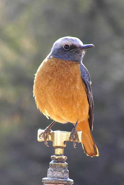 Short Toed Rock Thrush Monticola brevipes at Duiseb Castle, Hardap, Namibia